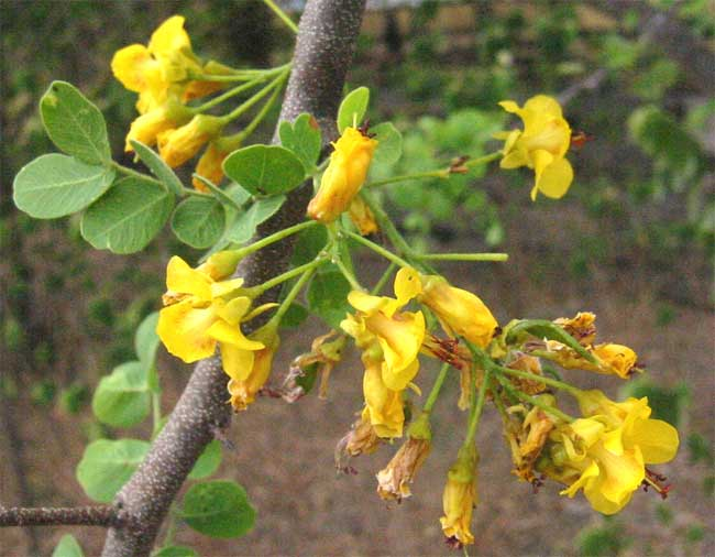 Flowers and leaves of Brasil (Haematoxylum brasiletto)